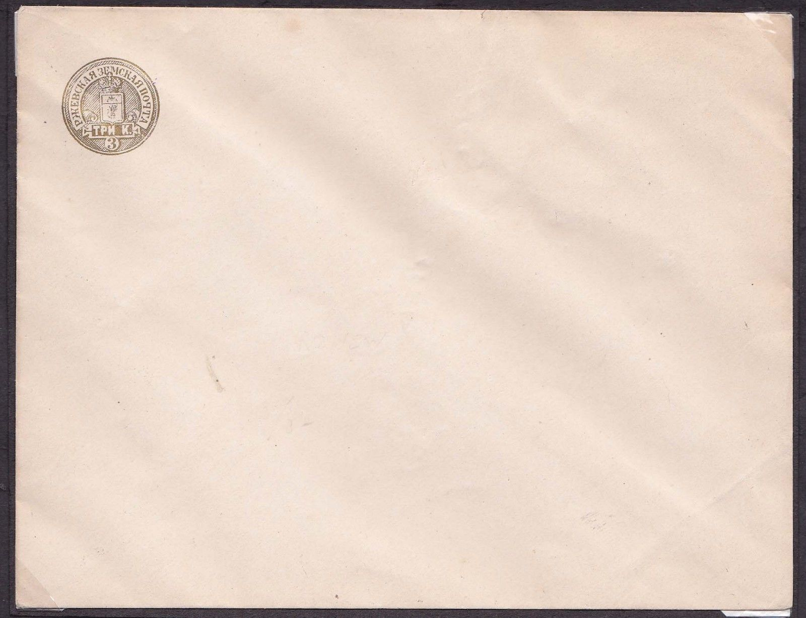 1891 Rzhev Zemstvo Cover, Tver Governorate, Russian Empire, cat. #9, 151x116 mm.